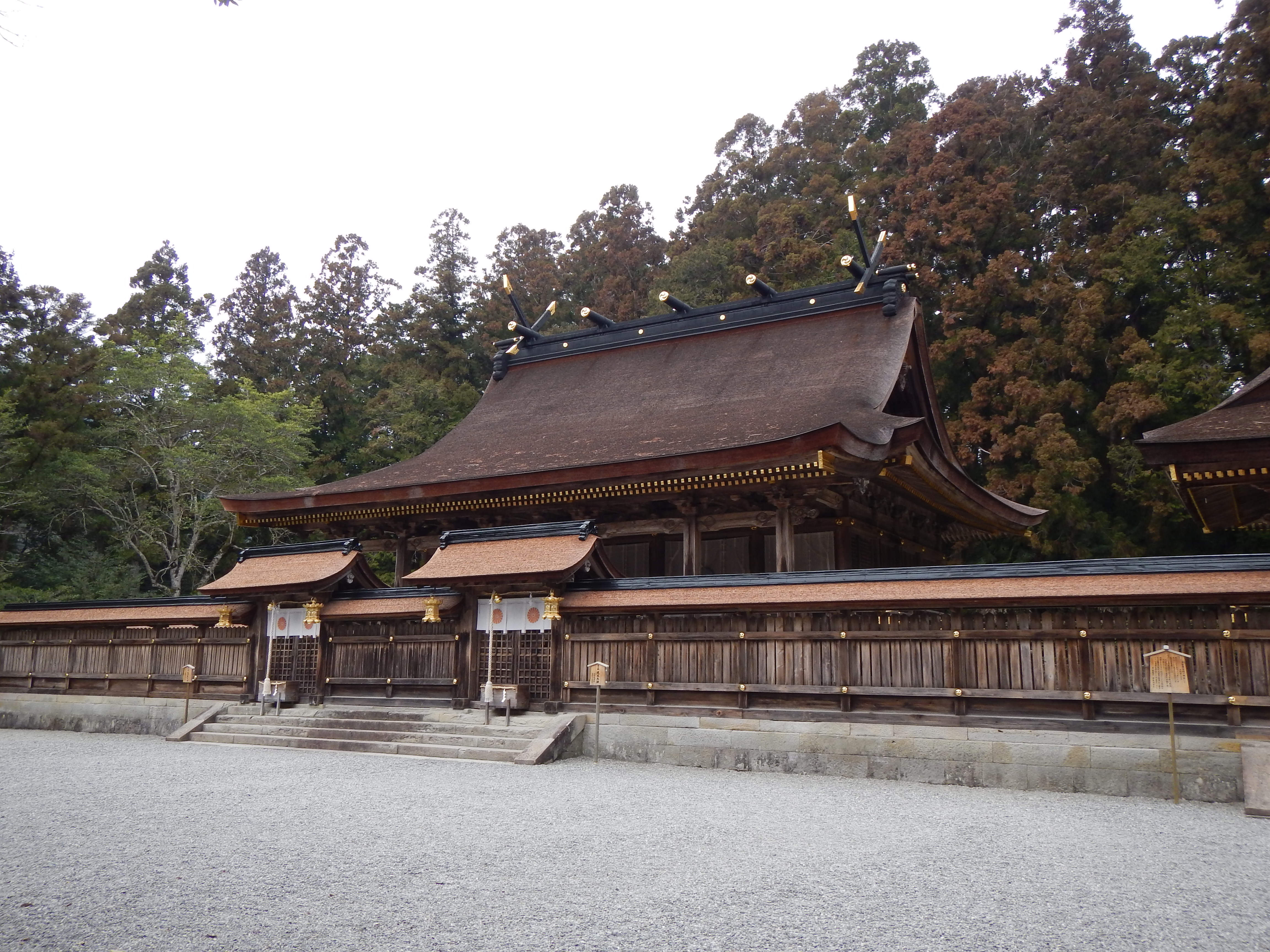 Kumano Kodo Kumano Hongu Taisha World heritage 熊野本宮大社